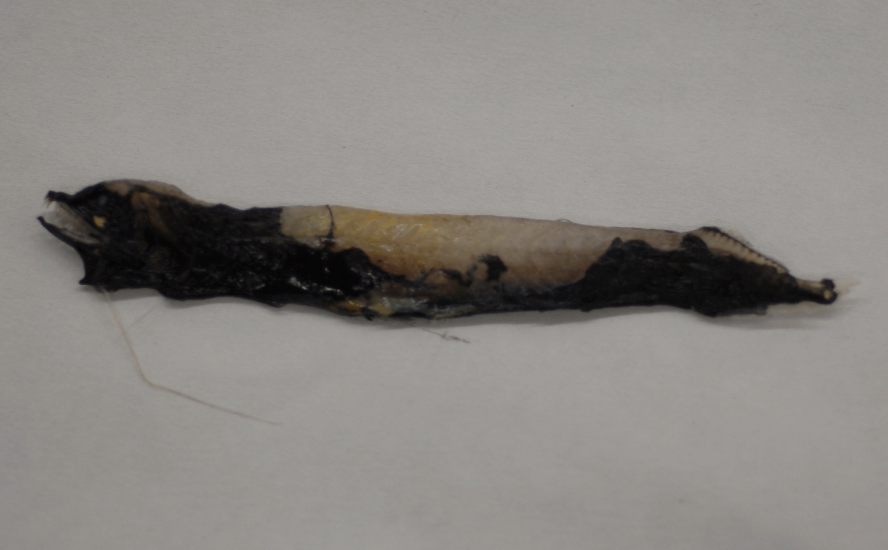 Pawnee dragonfish ( Bathophilus pawneei ). Gulf of Mexico.